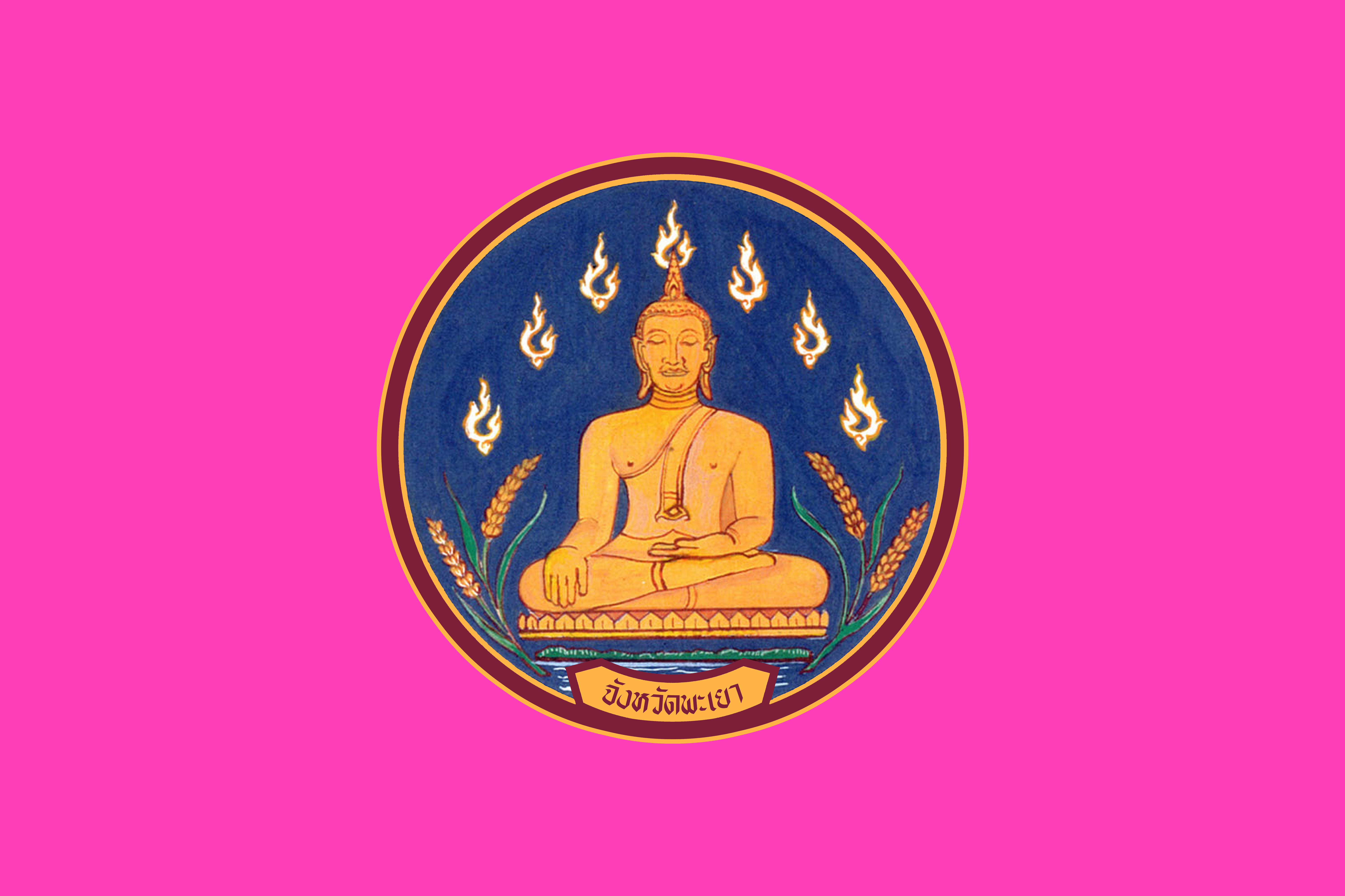 Flag of Phayao Province Filipino: Watawat ng Lalawigan ng Phayao